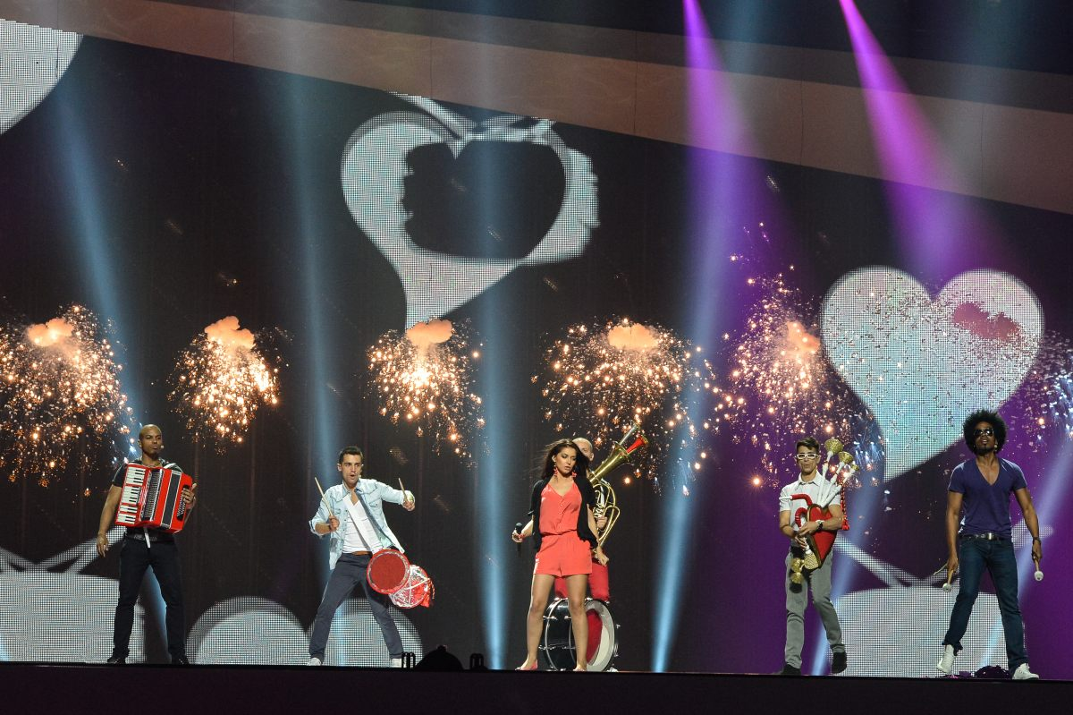 Photo of Mandinga members performing their song "Zaleilah" live during the first rehearsal prior to the Eurovision Song Contest 2012 at the Baku Crystal Hall, Azerbaijan.